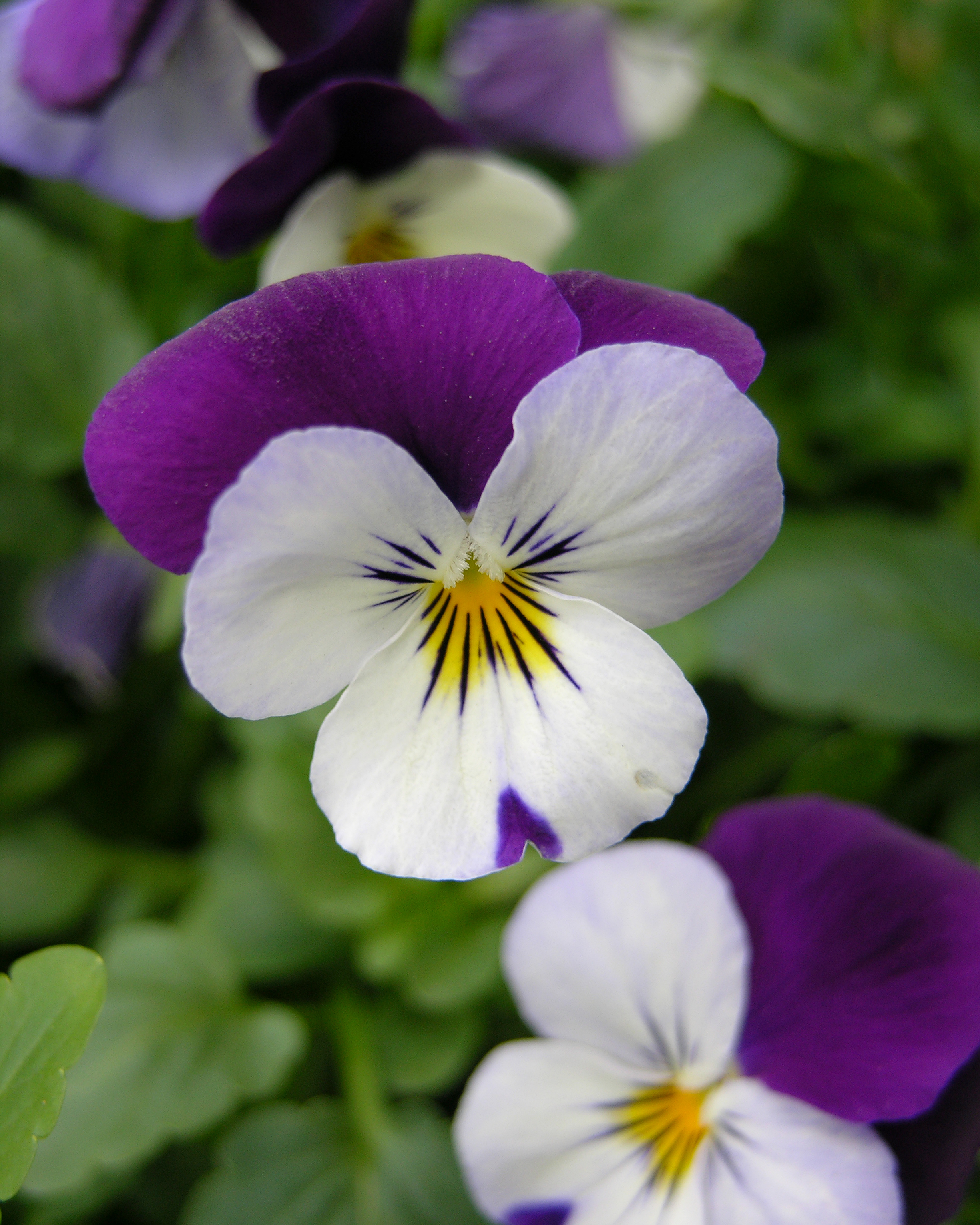 Photograph of the Pansyen (Viola x wittrockiana en ) cultivar. Photo taken at the Winterthur Country Estate where it was identified.